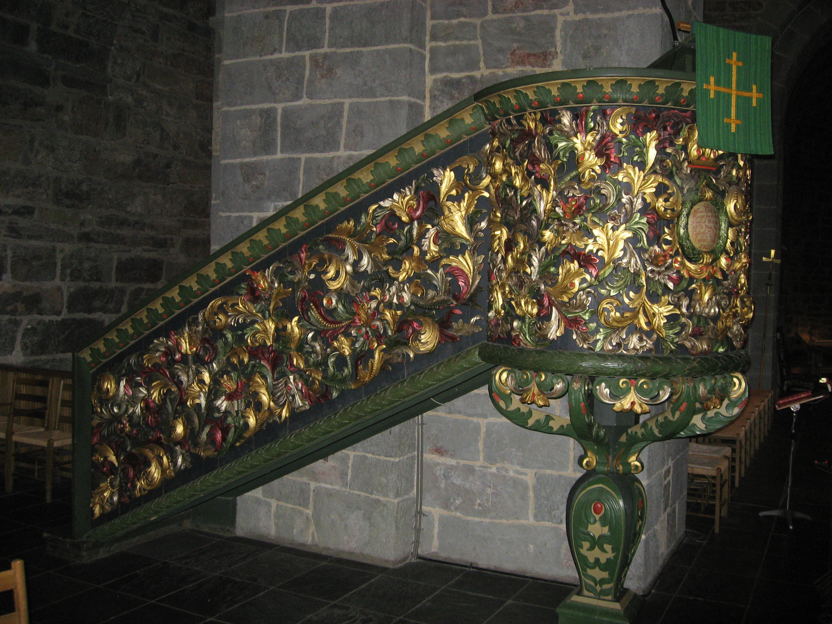 Pulpit from 1715 by Thomas Blix. From Gamle Aker church, Oslo, Norway.